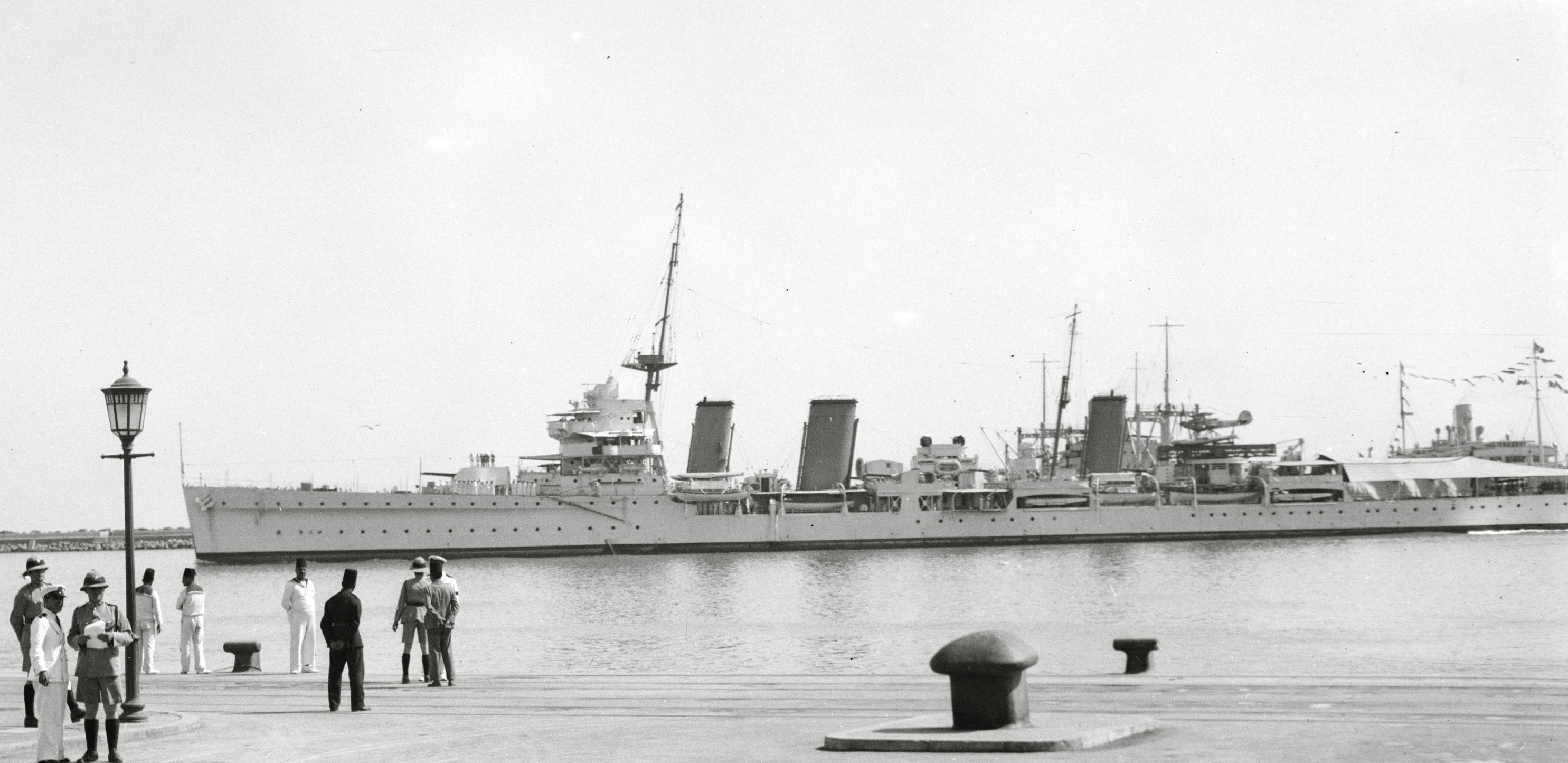 British light cruiser HMS Enterprise in Haifa Original title: Arrival of the Negus to Haifa Summary: Photo shows the family of Ethiopian Emperor Haile Selassie I arriving at Haifa on the British ship, the H.M.S. Enterprise, May 8, 1936.